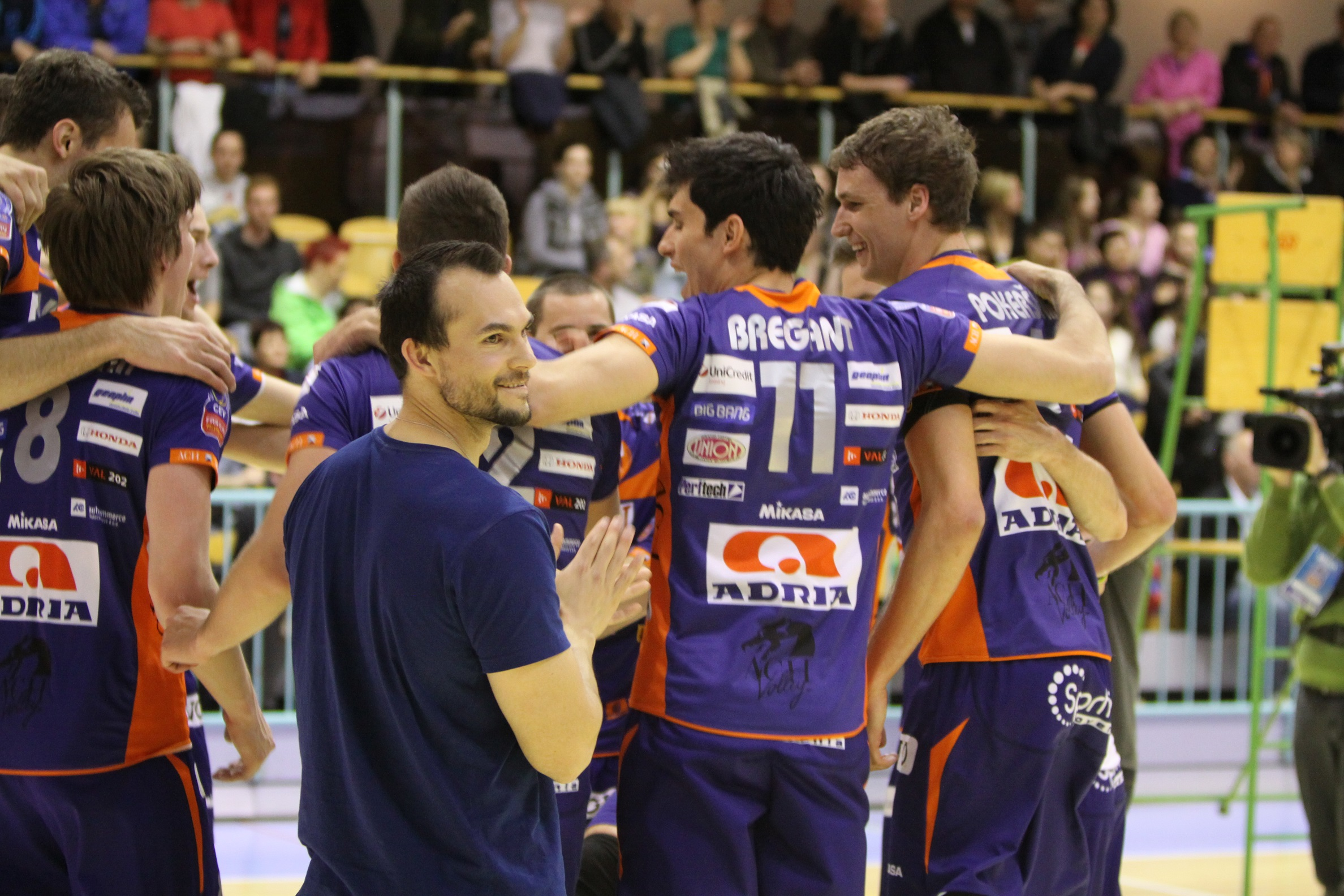 Hakala in Slovenia